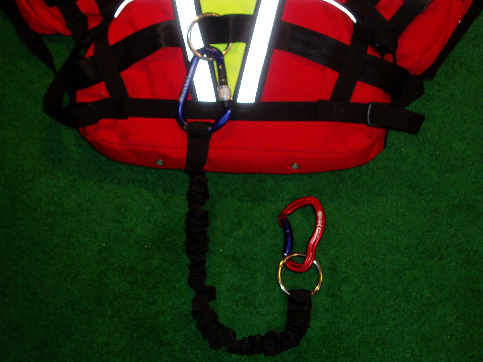 Cowtail